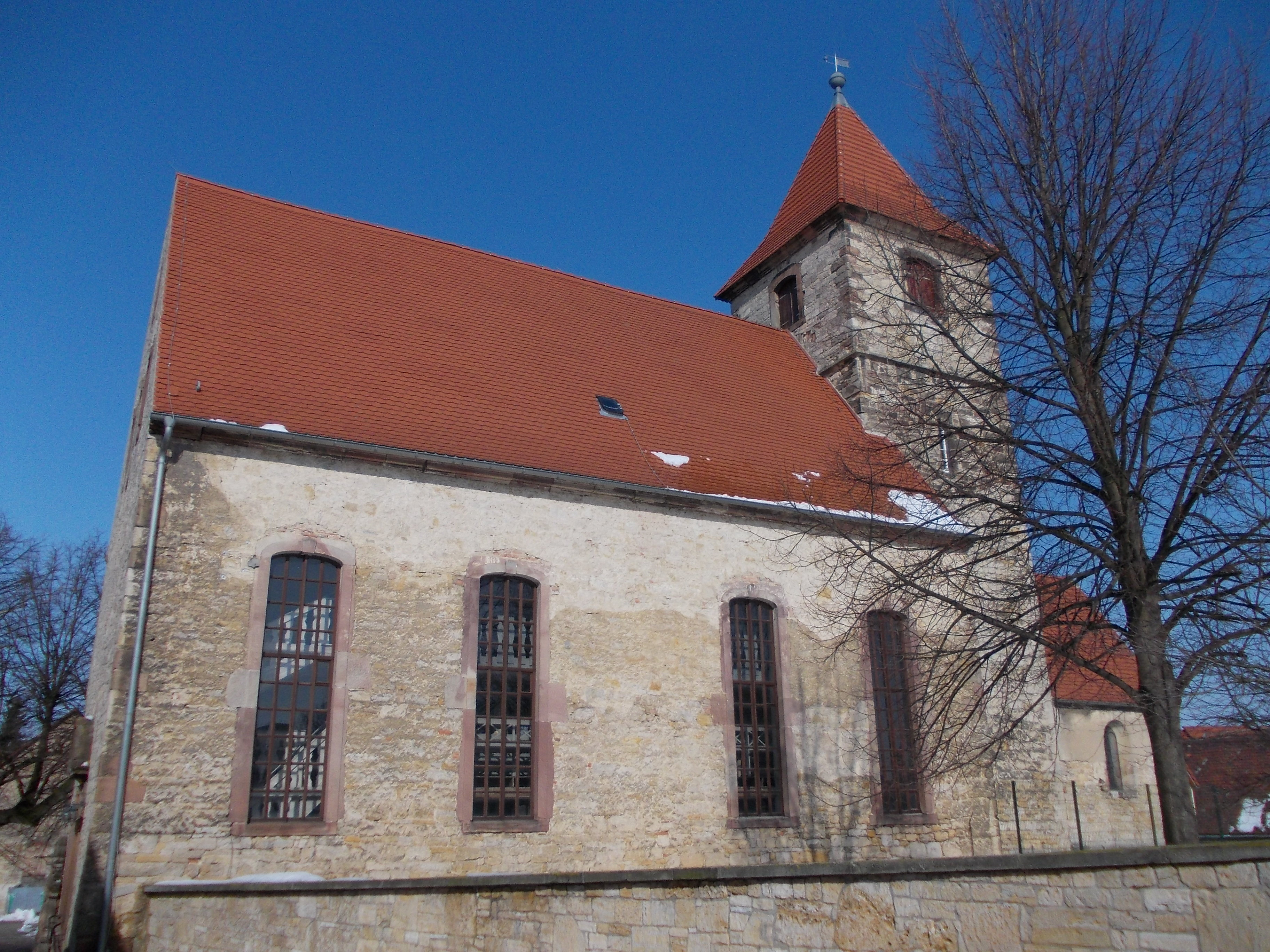 Göhrendorf church (Nemsdorf-Göhrendorf, district of Saalekreis, Saxony-Anhalt)